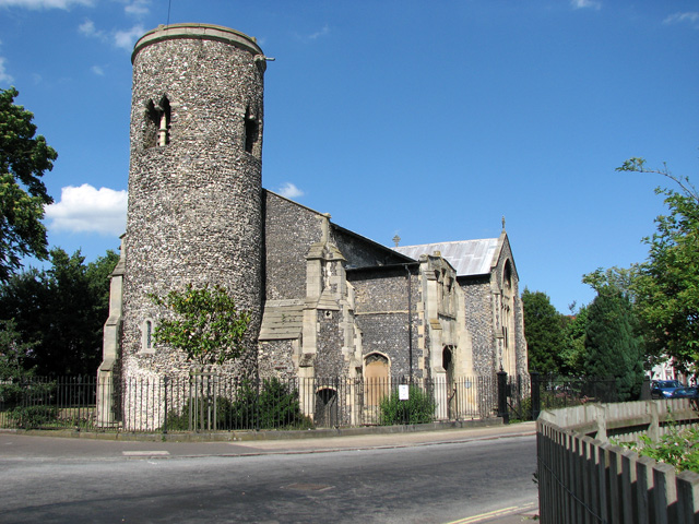 St Mary Coslany, Norwich